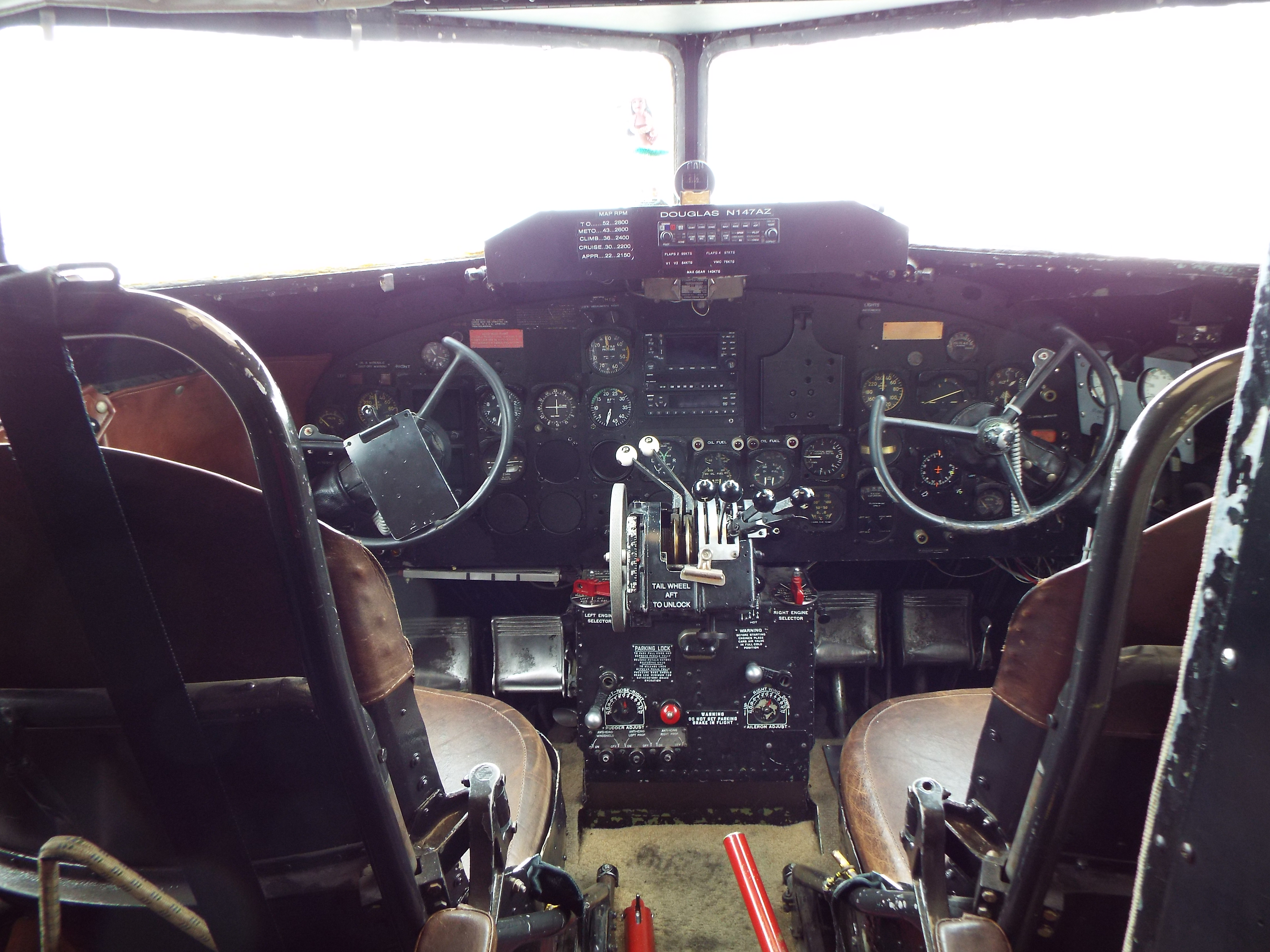 Mesa-Arizona Commemorative Air Force Museum-Douglas C-47 Skytrain Dakota “Old Number 30” Cockpit